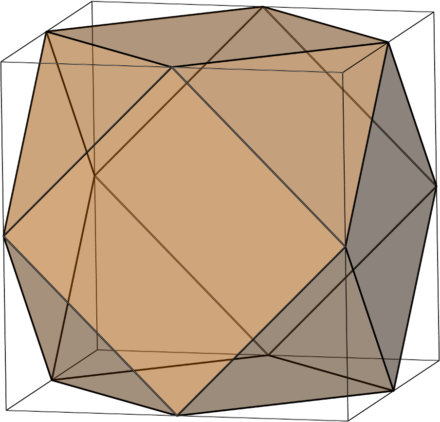 Cuboctahedron seen as a truncated cube. The original cube is represented by the black lines around the cuboctahedron. Image drawn with the program ATOMS version 5.1.